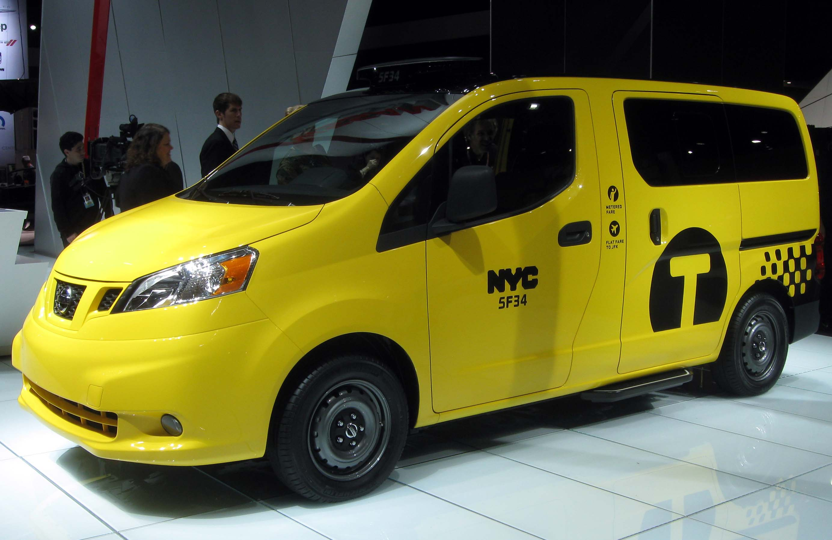 Nissan NV200 photographed at the 2012 New York International Auto Show.